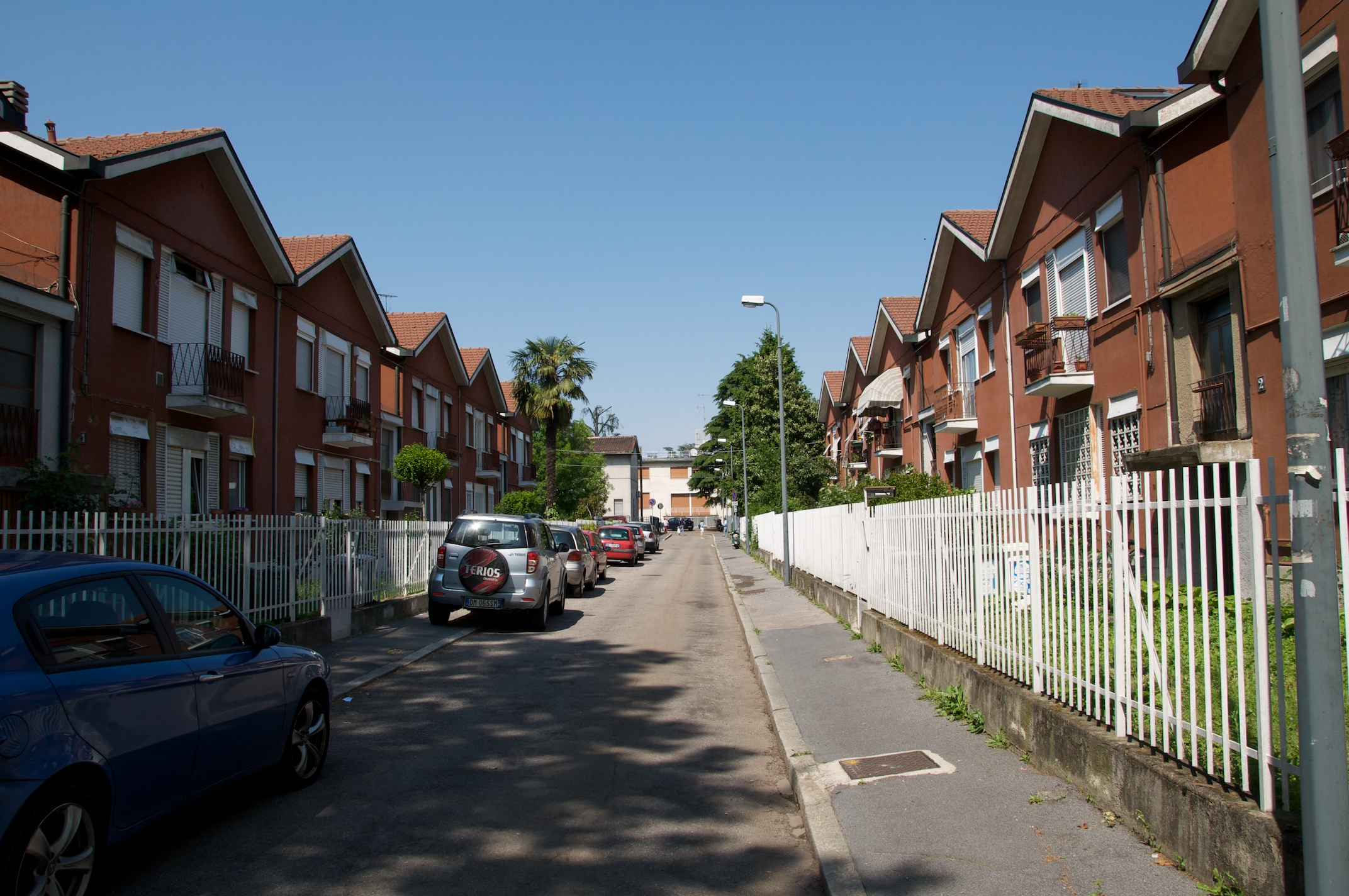 Quartiere Triennale 8 (QT8) typical small street